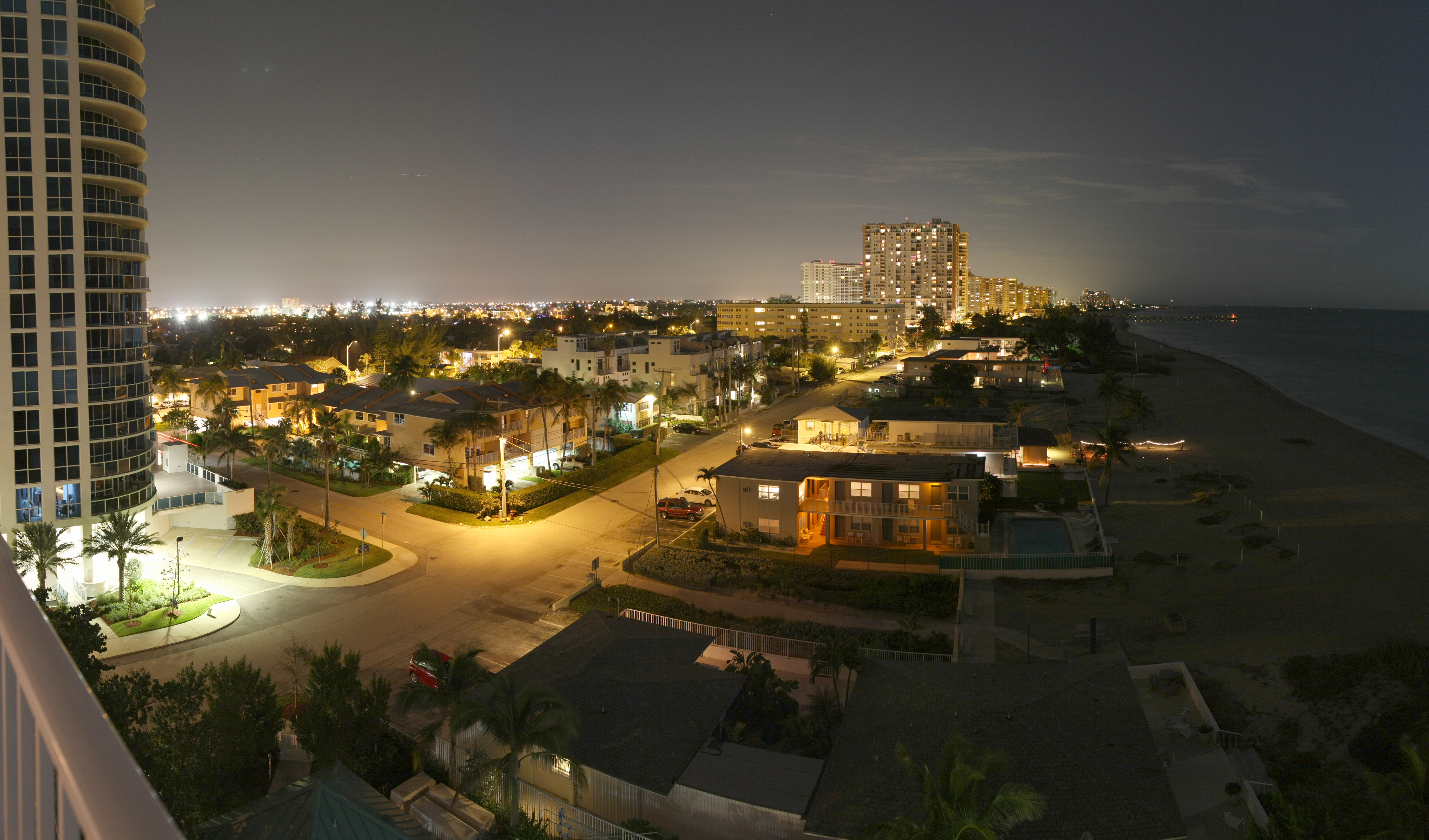 Nightime panorama of Briny Avenue in Pompano Beach, FL. Taken from the eighth floor.